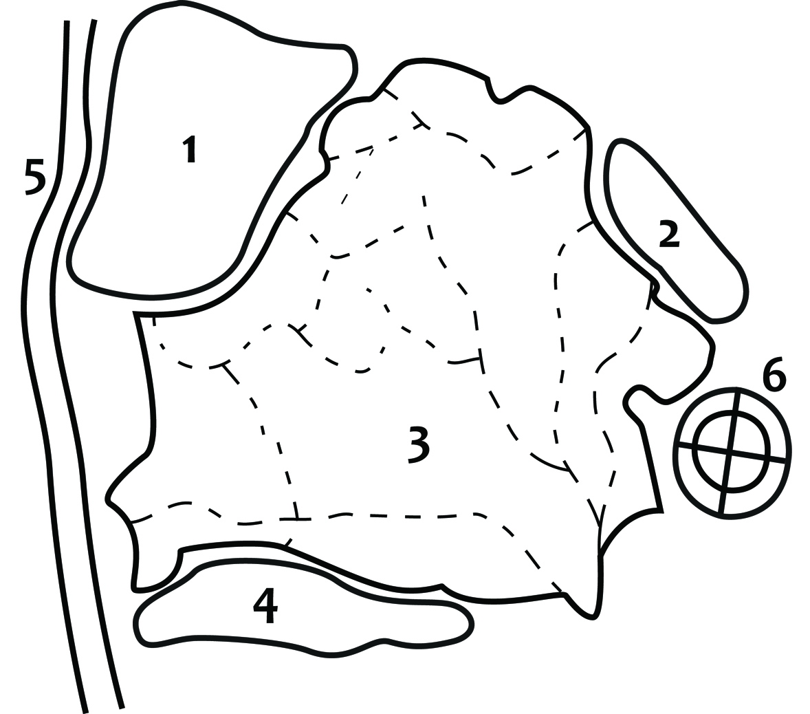 Scheme or plan of museum of boulders (Mensk). Беларуская (тарашкевіца): Плян музэя Валуноў у Менску